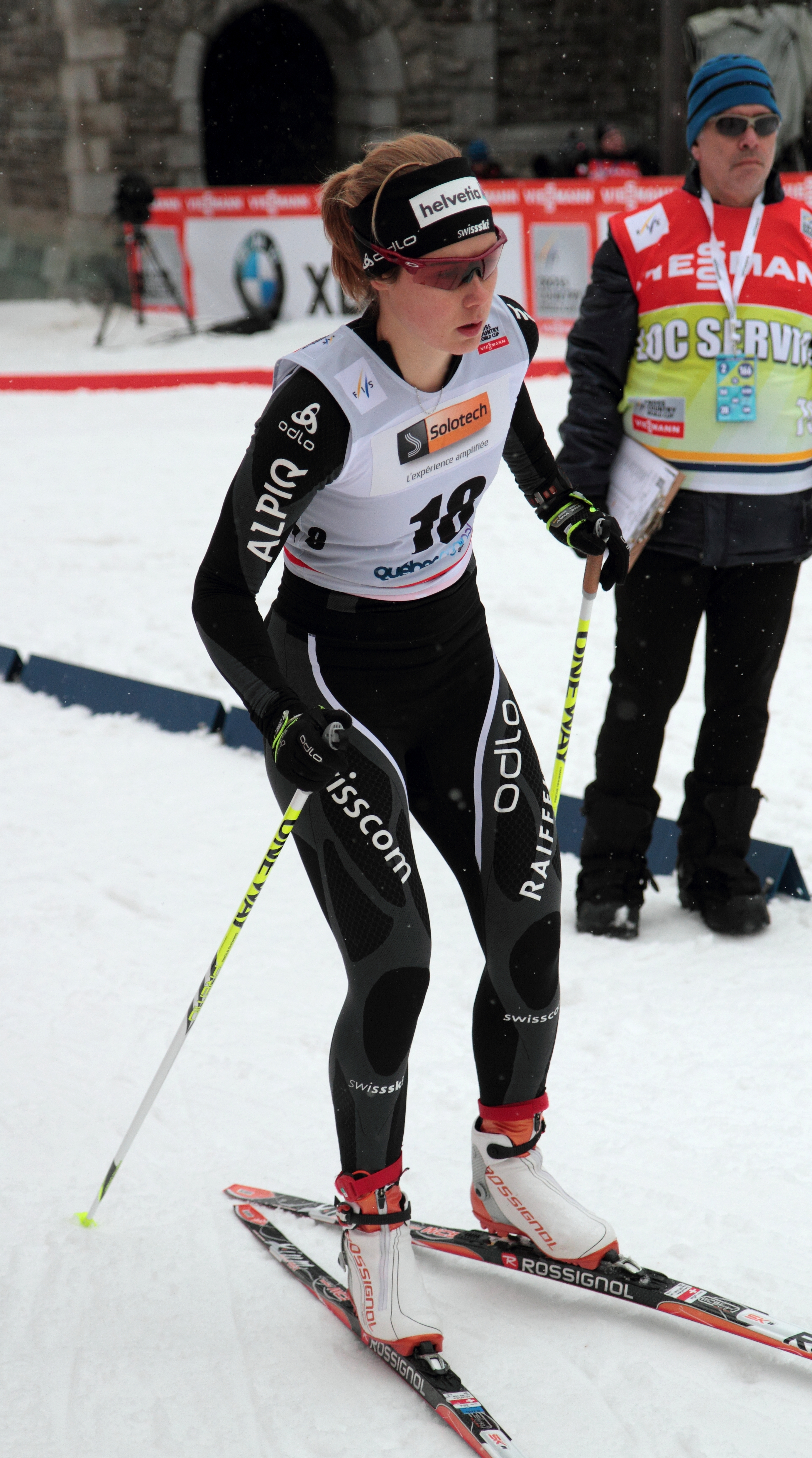 Laurien Van Der Graaff, FIS Cross-Country World Cup 2012, Quebec, Canada.